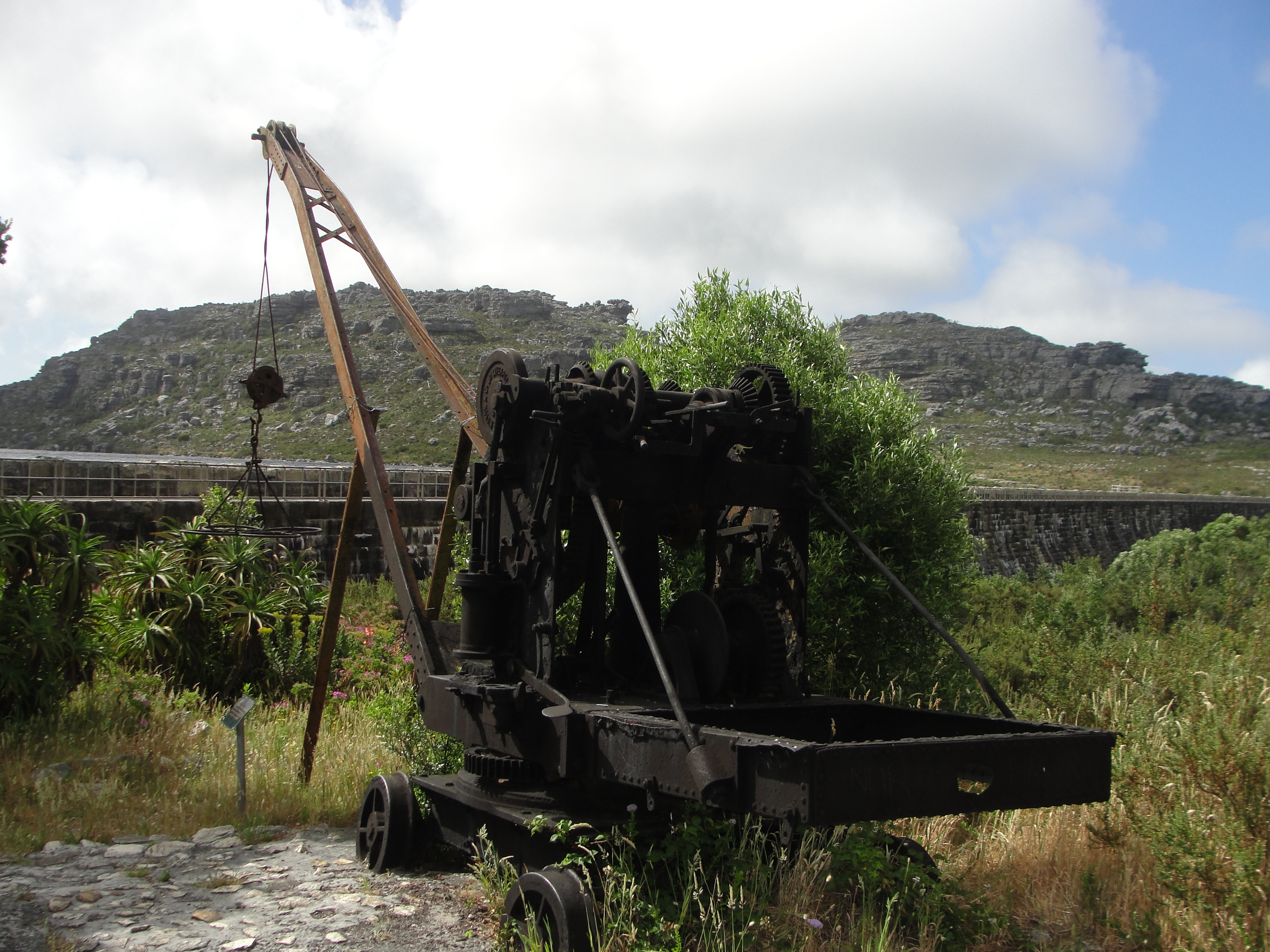 Crane used in the construction of the dams on Table Mountain around 1900, now at the Waterworks Museum on Table Mountain. (Hely Hutchinson Dam)